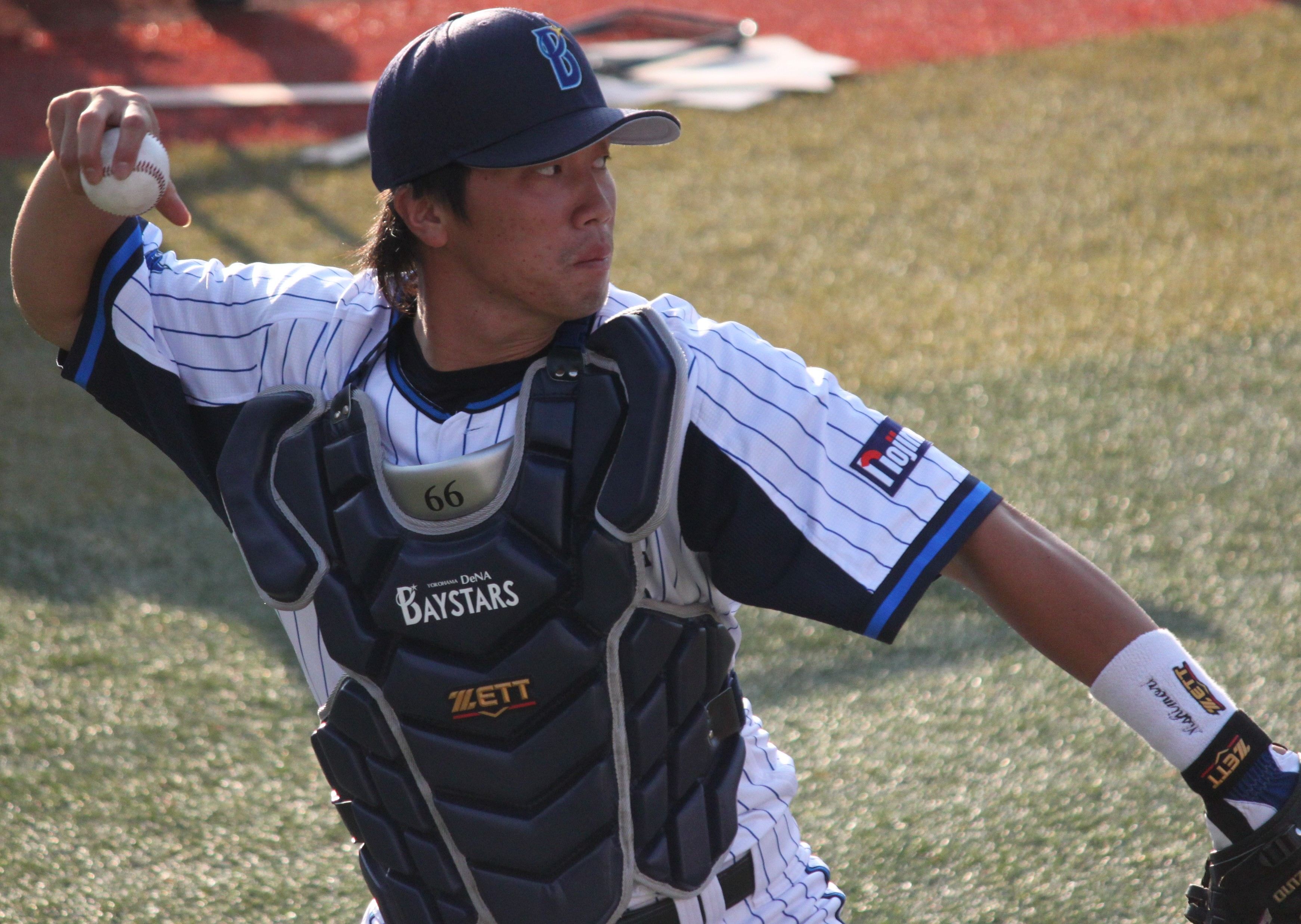 Masashi Nishimori, catcher of the Yokohama DeNA BayStars, at Yokohama Stadium.